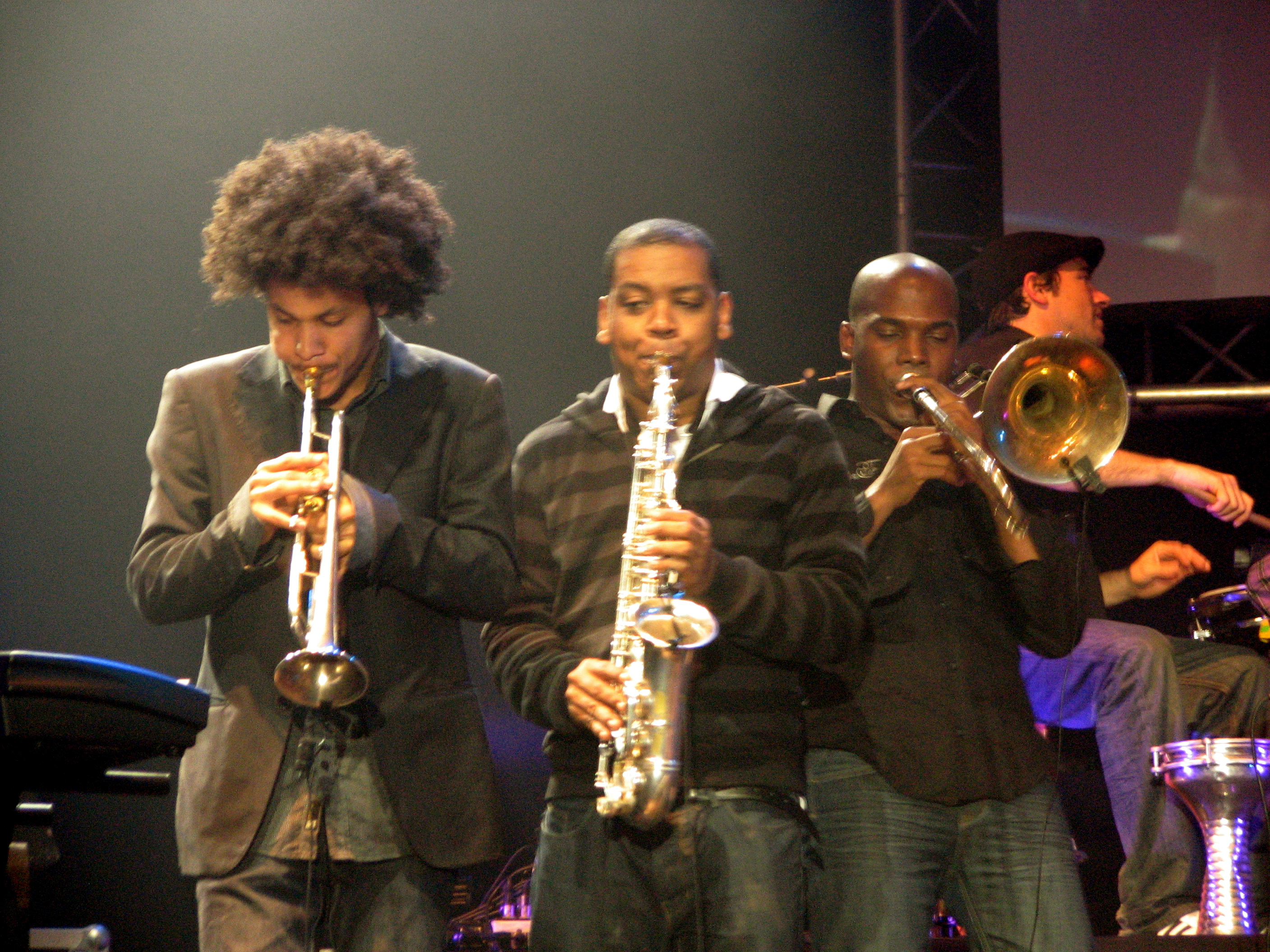 Horn section of Ojos de Brujo at concert in Espacio Movistar. Ordinary band member Carlos Sarduy to the left.